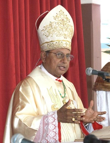 Archbishop Malcolm Ranjith at Indigolla